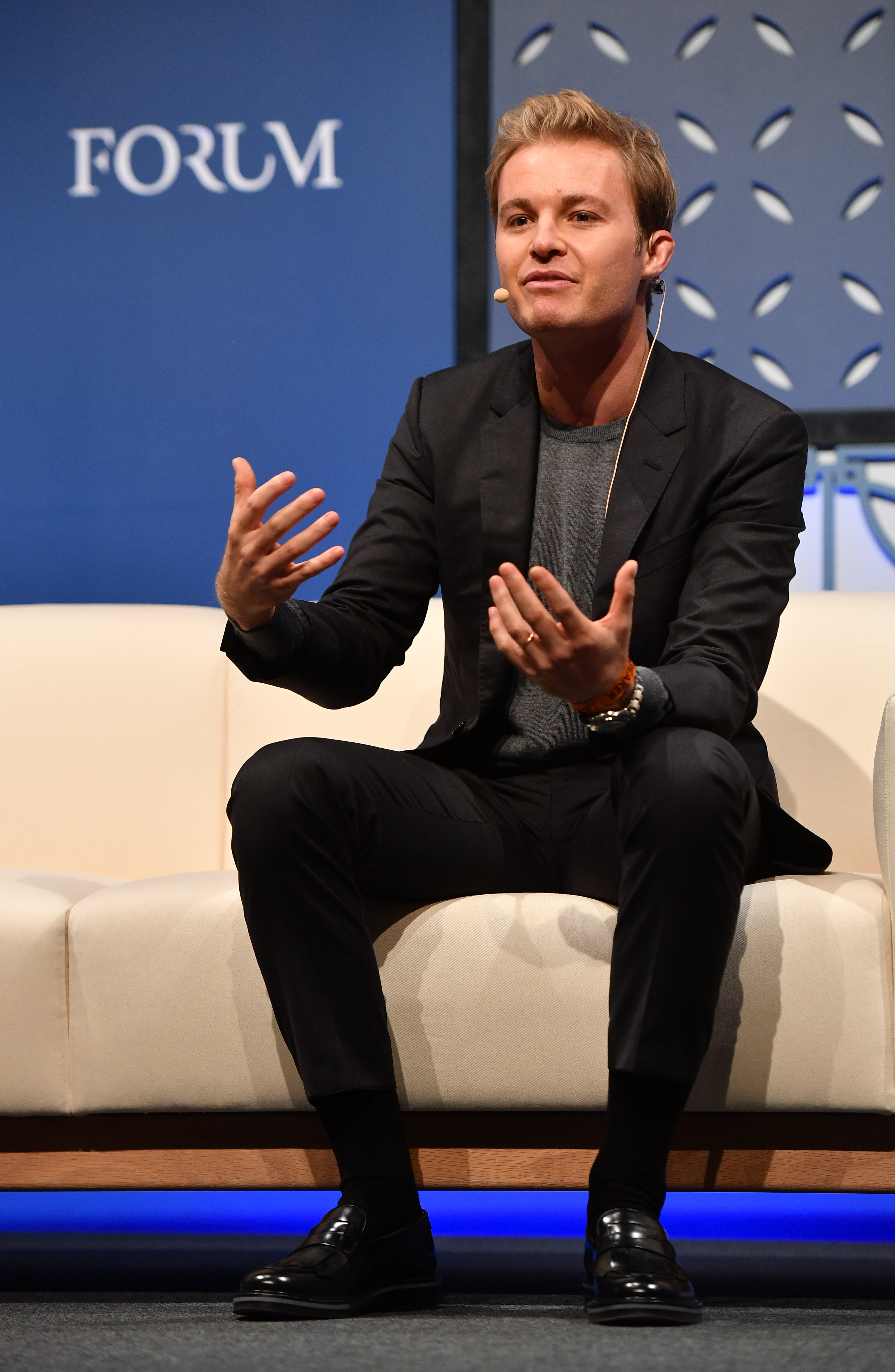 6 November 2018; Nico Rosberg, Formula 1, on the Forum Stage during the opening day of Web Summit 2018 at the Altice Arena in Lisbon, Portugal. Photo by Sam Barnes/Web Summit via Sportsfile